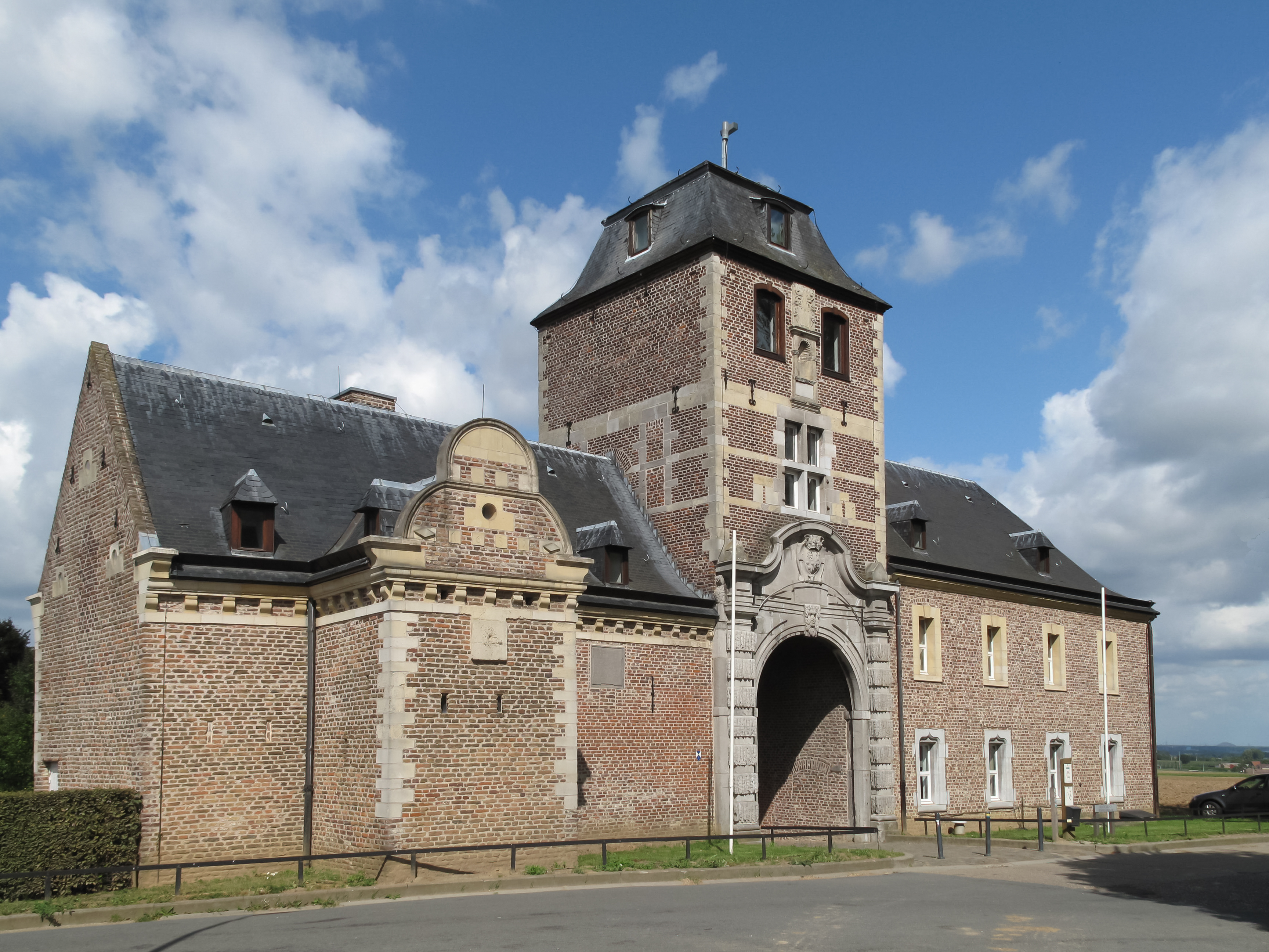 Rijkhoven, monumental building